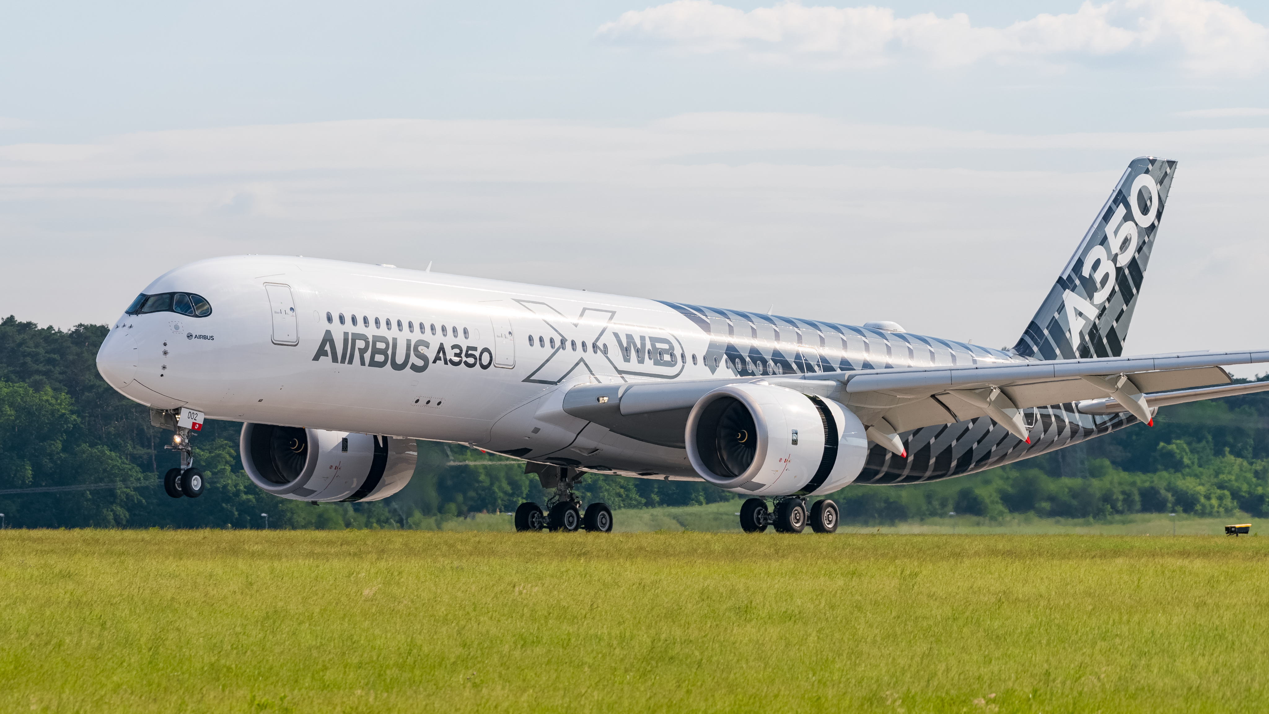 Airbus A350-941 (reg. F-WWCF, MSN 002) in Airbus promotional CFRP livery at ILA Berlin Air Show 2016.